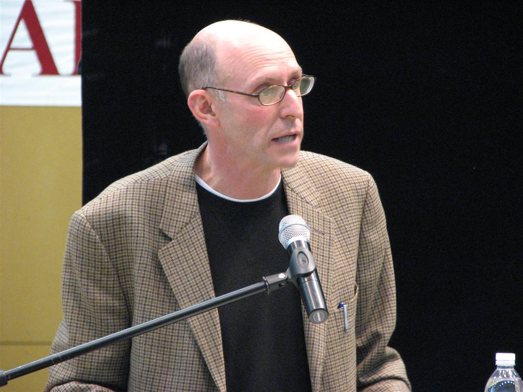 Author Michael Pollan speaking to the Marin Academy community.